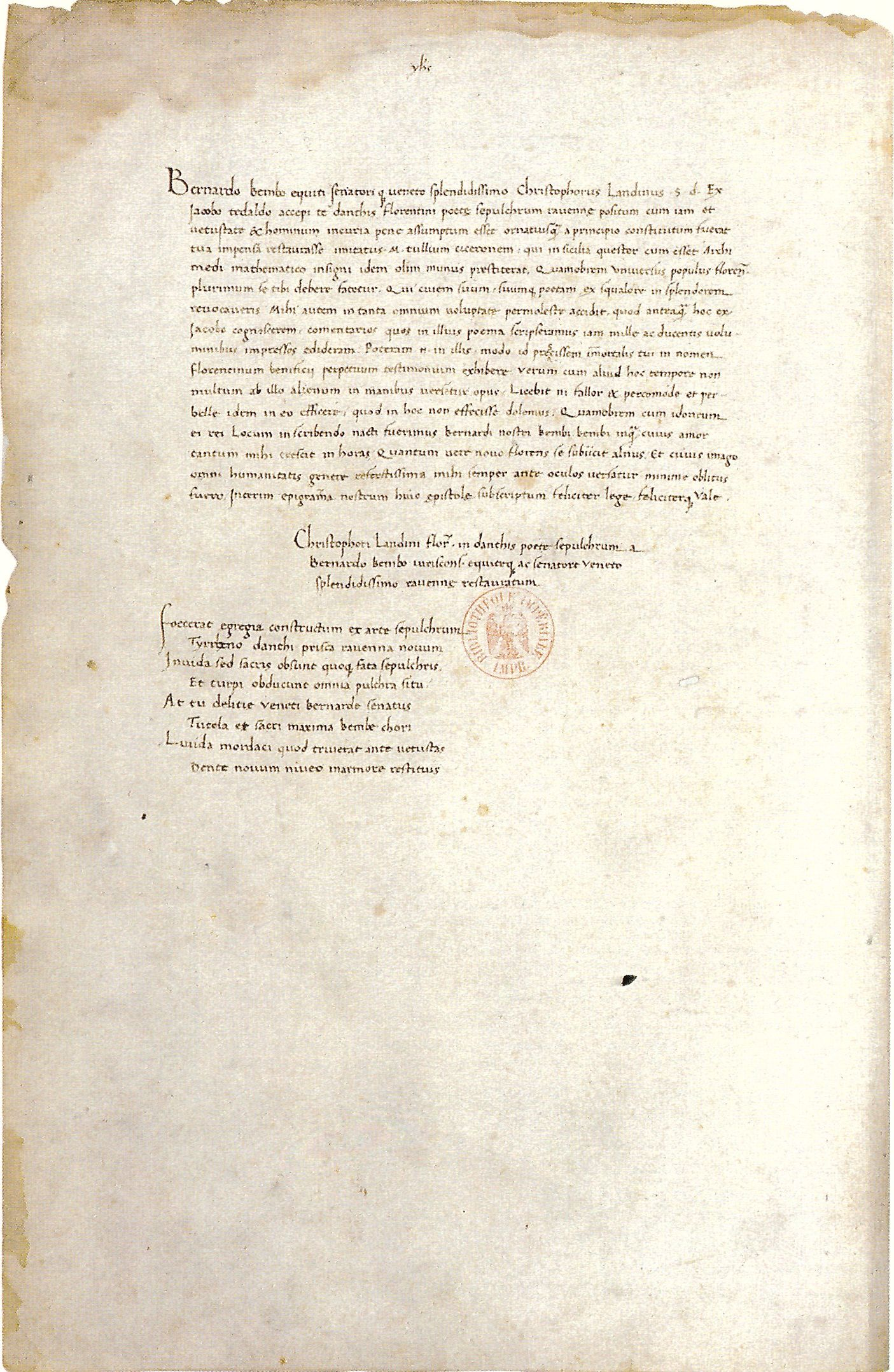 Autograph dedication letter and epigram in a copy of the first edition of Cristoforo Landino’s commentary on Dante’s Divine Comedy.The copy is dedicated to Bernardo Bembo. Incunable: Paris, Bibliothèque Nationale, Rés. Yd 17.